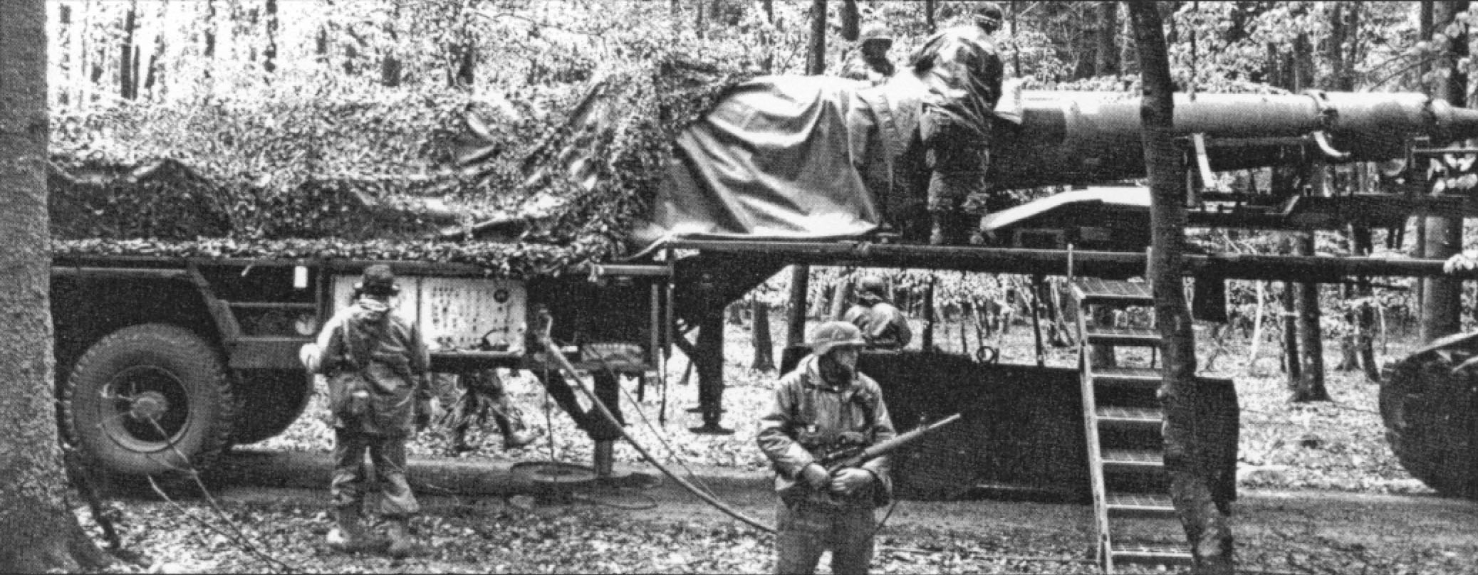 training with a Pershing II on an erector launcher, 9th FA, most likely in southern Germany